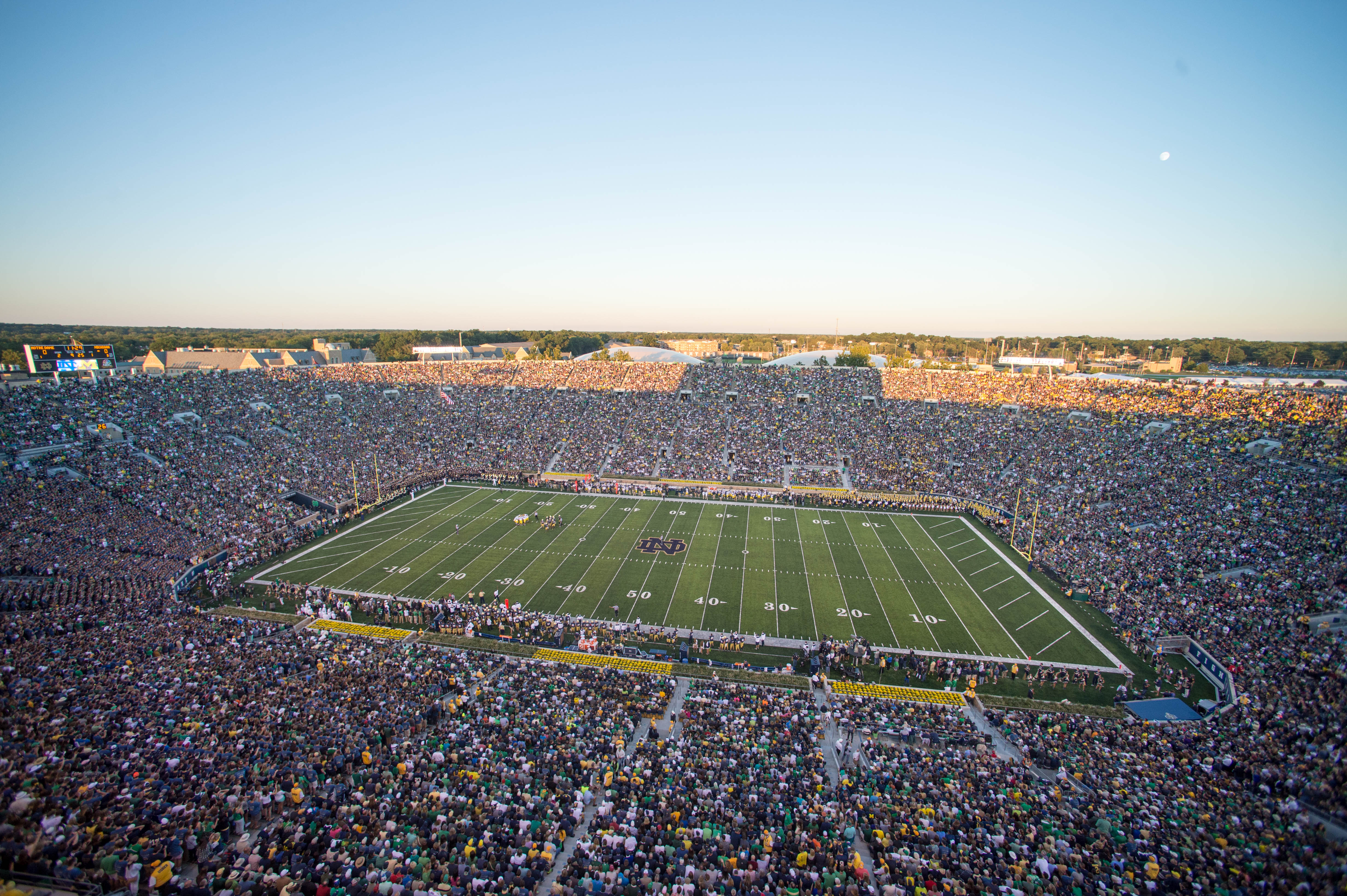 Fans and players gather for a football game Sept. 6, 2014, at Notre Dame Stadium in South Bend, Ind.